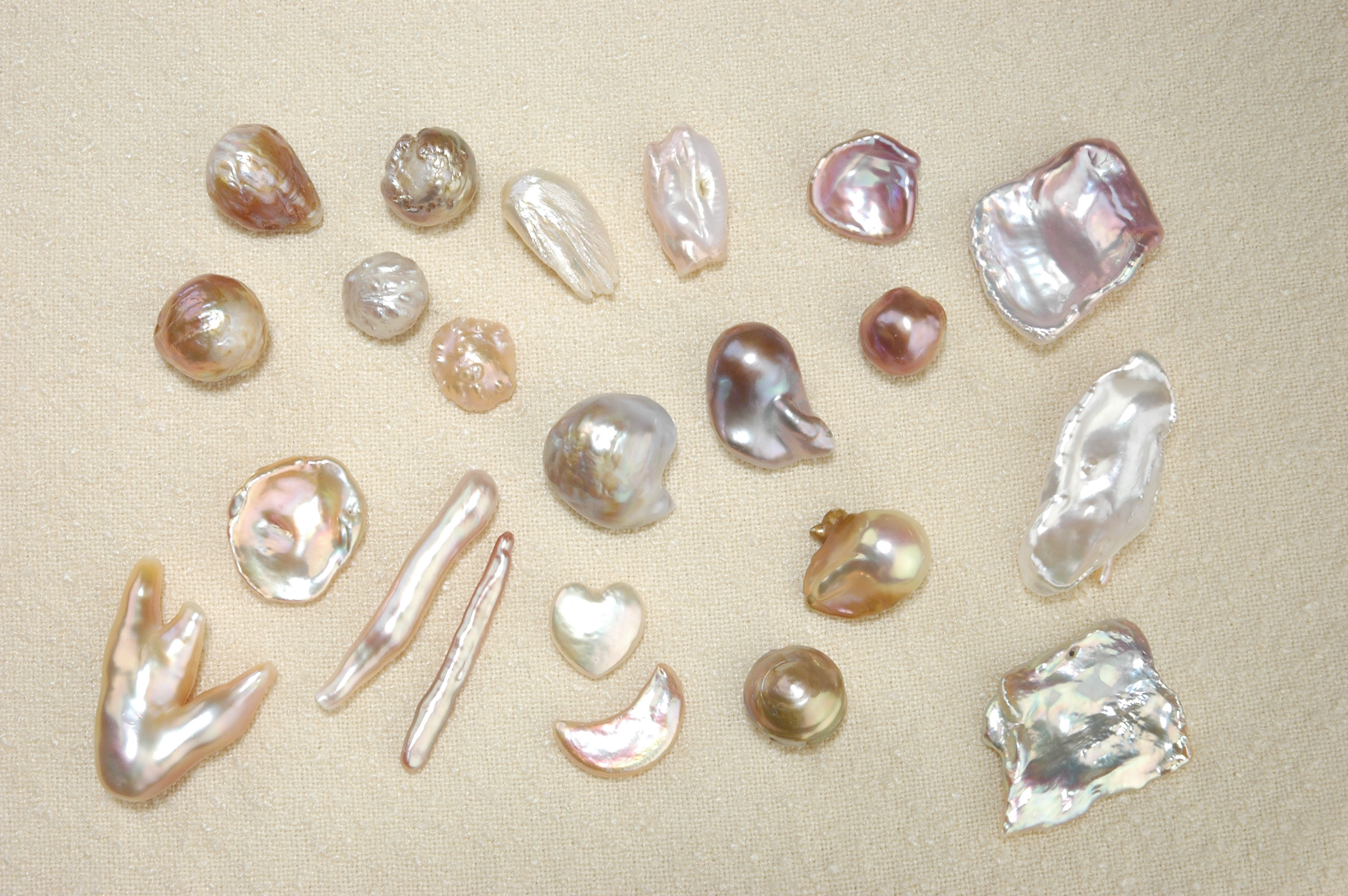 Keshi pearls in a variety of shapes and sizes